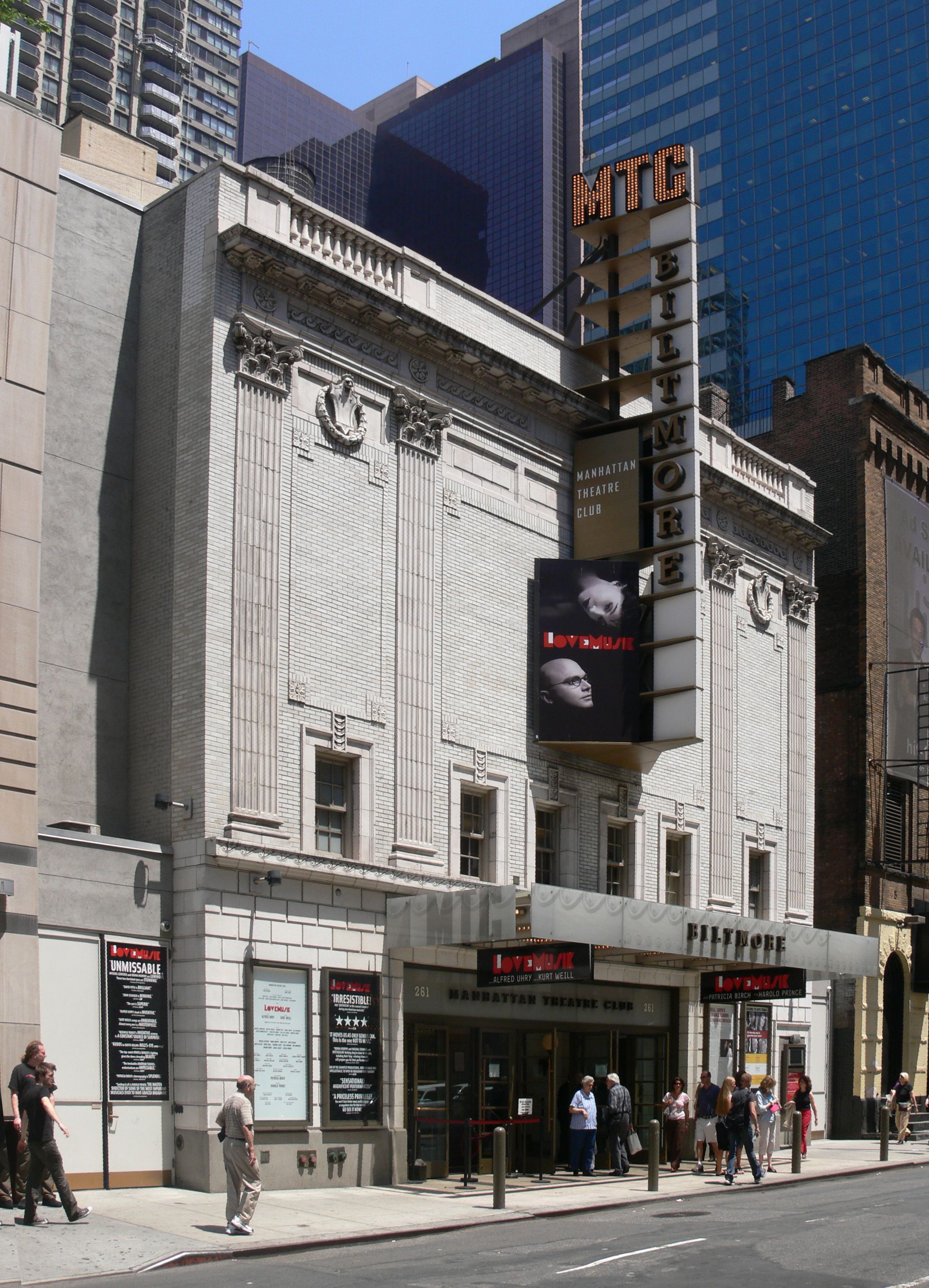 Biltmore Theatre (Manhattan Theatre Club), showing Lovemusik (Alfred Uhry' musical on Kurt Weill) 261 West 47th Street, Manhattan, New York City